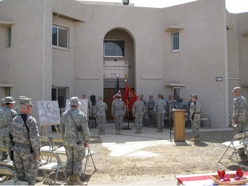 The Dedication Ceremony of Potts-Collier Hall, the Mayor Cell Annex Building on Camp Taji, Iraq. SSG Christopher Potts and SGT Russell Collier were Members of the 1-206th FA who were killed in action during OIF II. SGT Collier was awarded the Silver Star, SSG Potts was awarded the Bronze Star with V device.